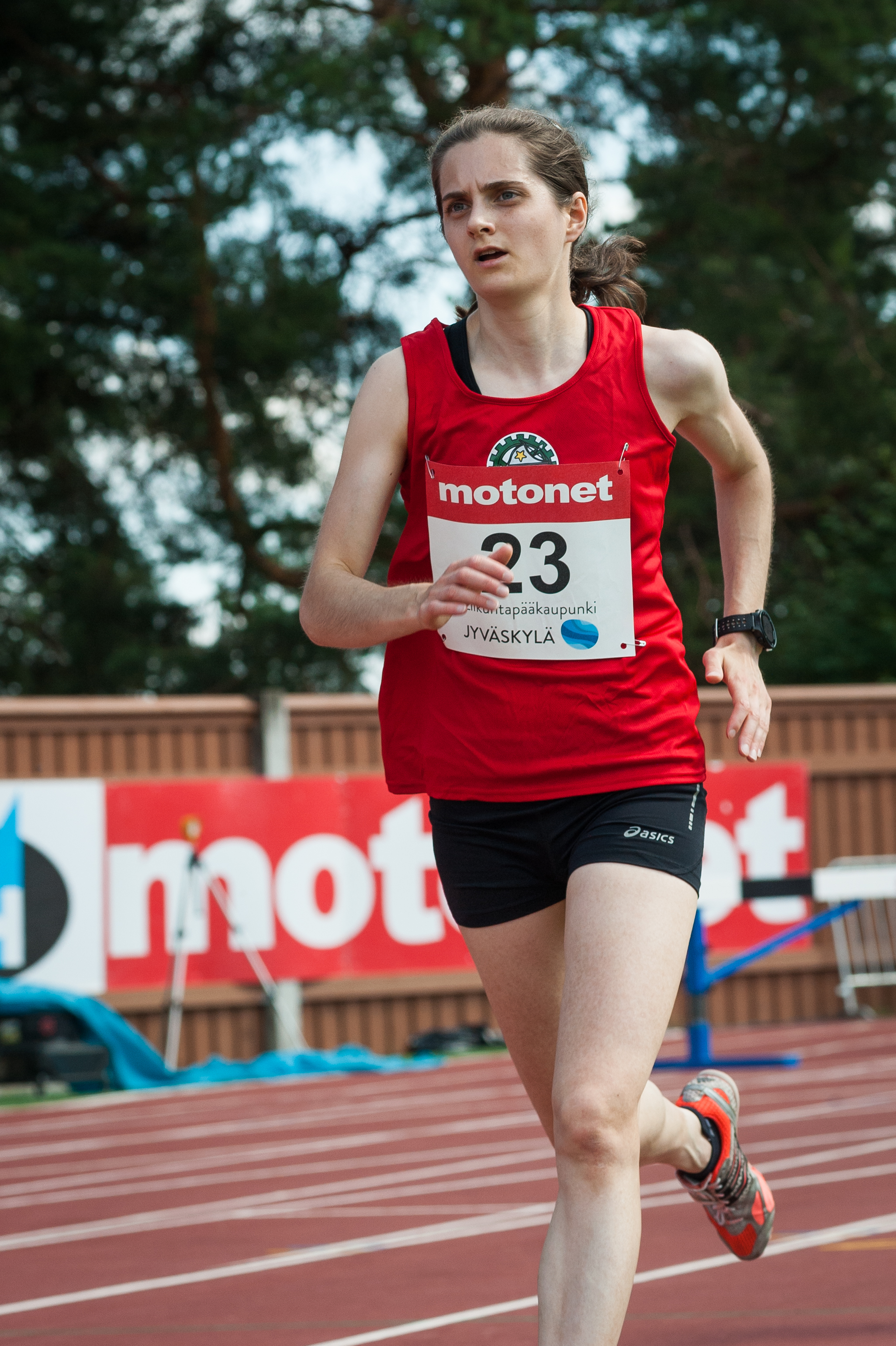 Women's 5000 m competition at the 2018 Kalevan Kisat, the Finnish championships in athletics, in Jyväskylä, Finland.